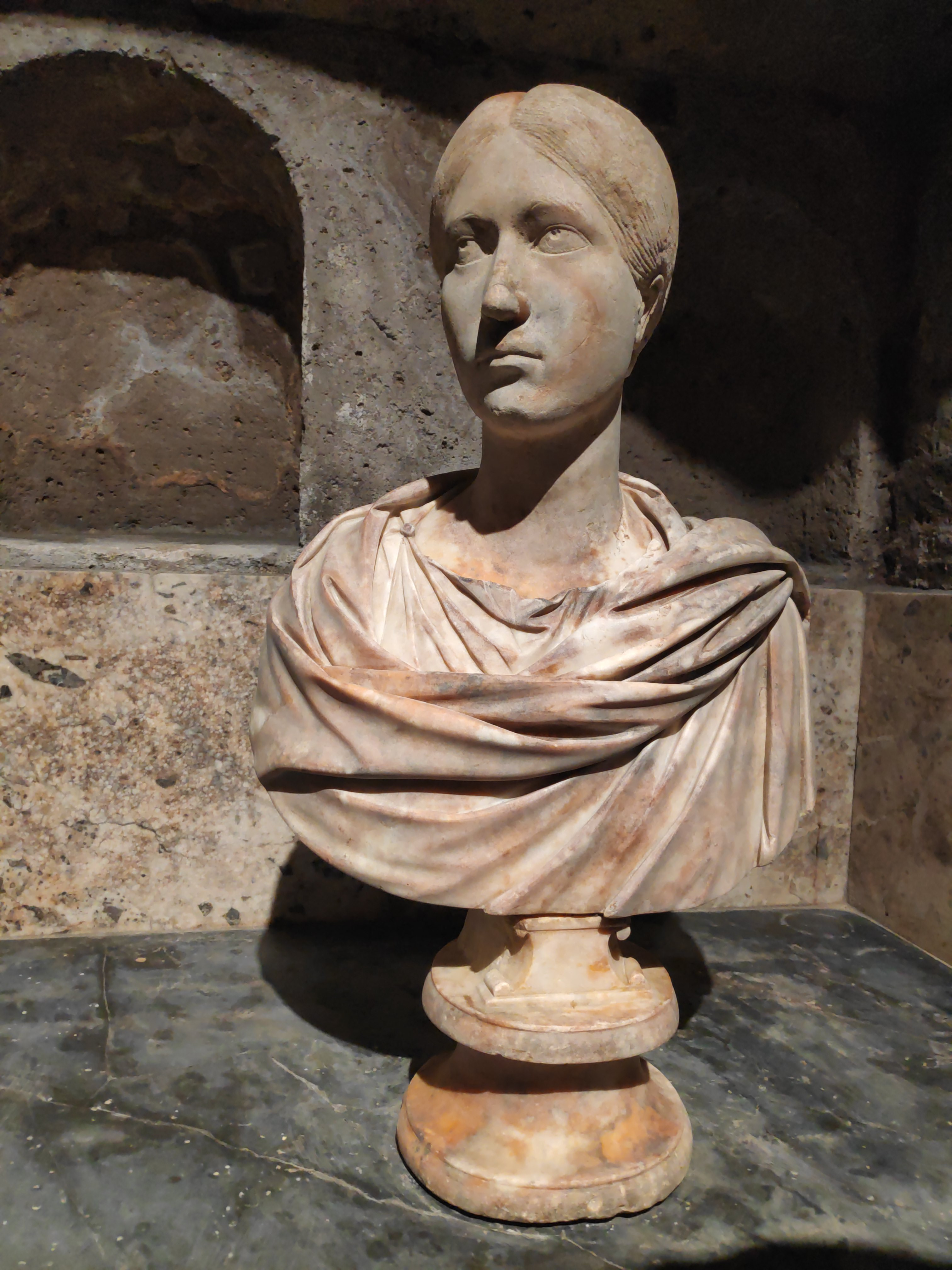 Römergrab Köln-Weiden - female statue